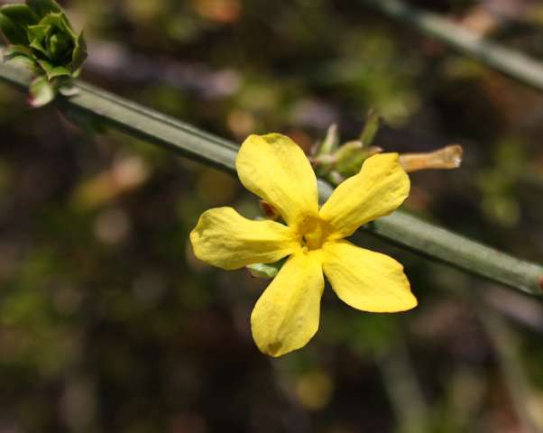 Jasminum nudiflorum, Brno, CZ Česky: Jasminum nudiflorum, Brno, CZ